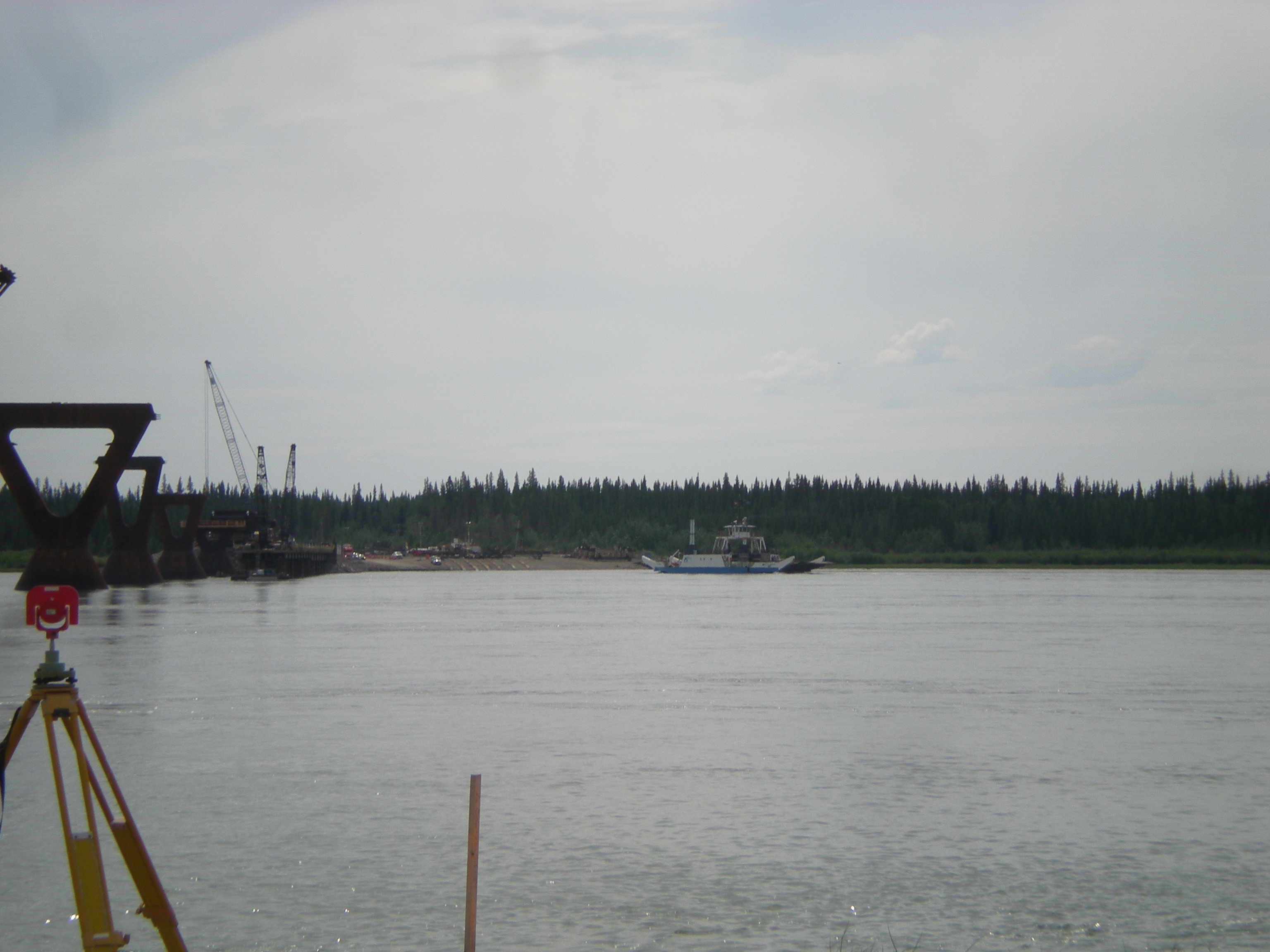 The Merv Hardie ferry from the Fort Providence side